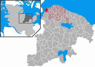 This map shows the area of the Gemeinde (municipality) Laboe in the Kreis (district) Plön, Schleswig-Holstein, Germany.